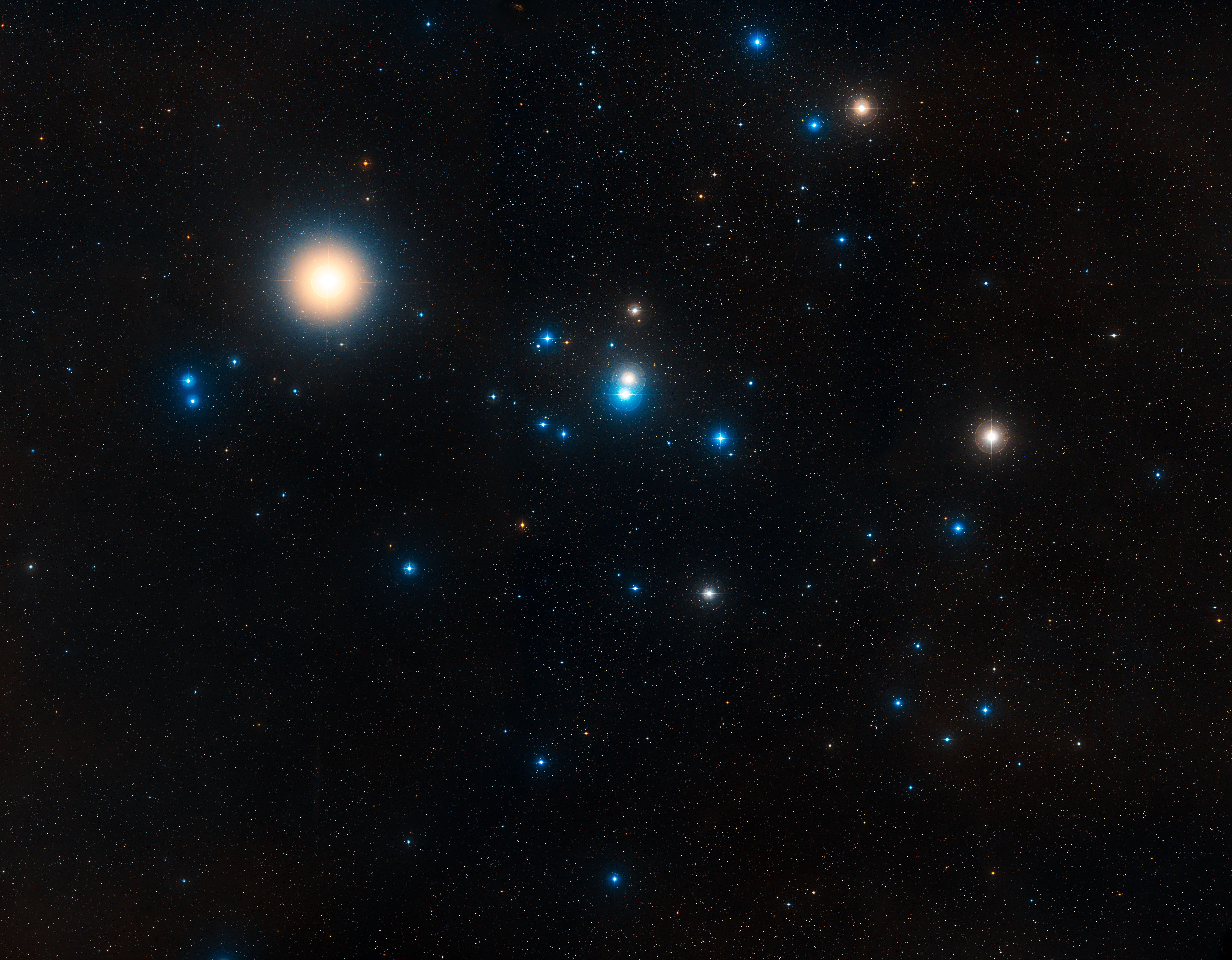 This image shows the Hyades star cluster, the nearest cluster to us. The Hyades cluster is very well studied due to its location, but previous searches for planets have produced only one. A new study led by Jay Farihi of the University of Cambridge, UK, has now found the atmospheres of two burnt-out stars in this cluster — known as white dwarfs — to be “polluted” by rocky debris circling the star. Seeing evidence of asteroids points to the possibility of Earth-sized planets in the same system, as asteroids are the building blocks of major planets. Planet-forming processes are inefficient, and spawn many times more small bodies than large bodies — but once rocky embryos the size of asteroids are built, planets are sure to follow.